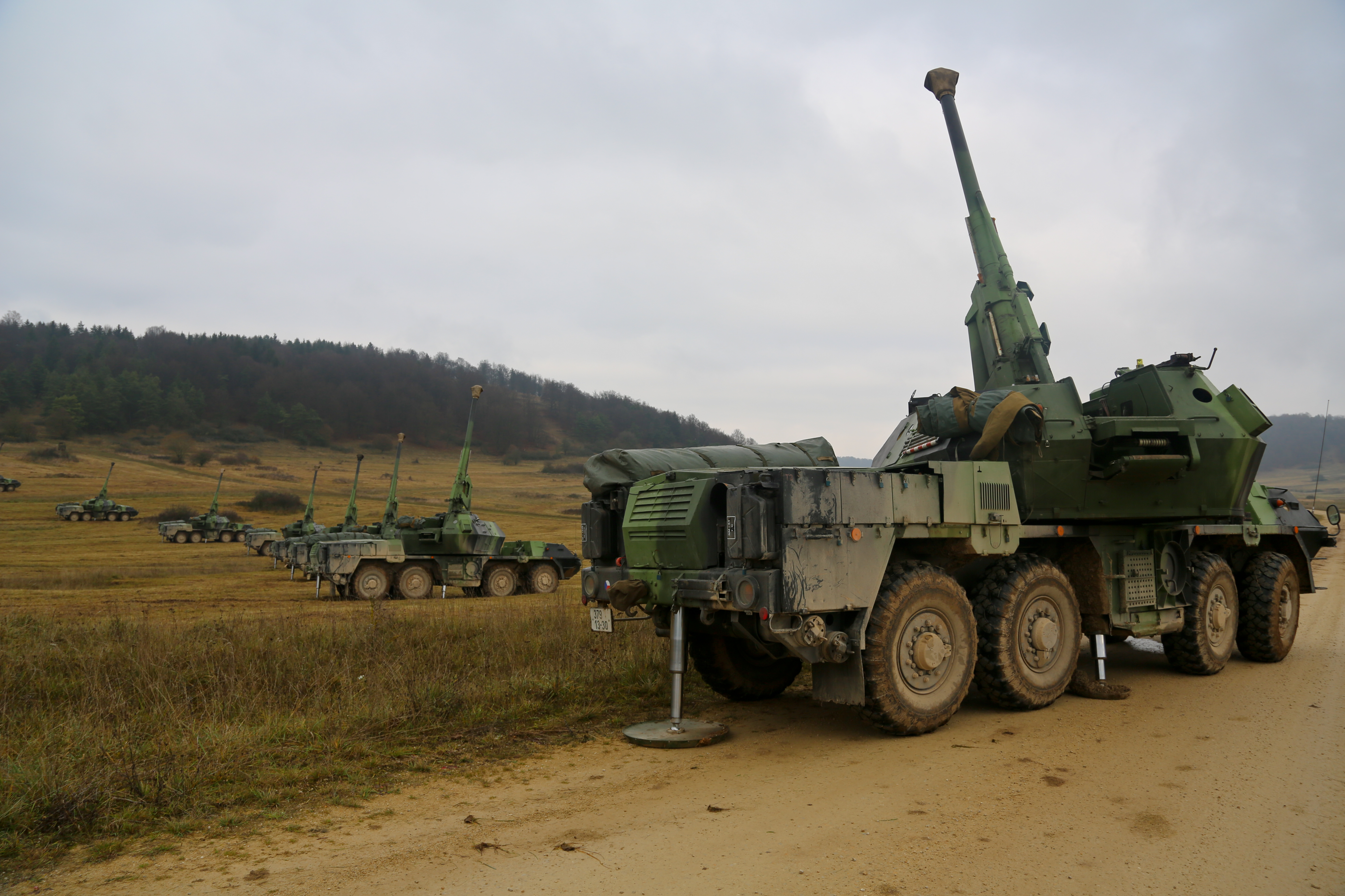 Czech Republic Army soldiers from 1st and 2nd Platoon Field Artillery maneuver a self-propelled gun-howitzer vehicle, called a DANA 152mm, into firing position while conducting simulated fire training during Combined Resolve at the Hohenfels training area at Hohenfels, Germany, Nov. 15, 2013. The exercise trains U.S. Soldiers, and multi-national brigades to defeat complex threats during coalition missions. Since the Joint Multinational Training Command’s Grafenwoehr and Hohenfels training areas are centrally located in Europe, U.S. forces, Army, Air Force, Navy, and Marine develop unique bonds with NATO, allied and multinational forces of 38 European nations. (U.S. Army photo by Spc. Derek Hamilton/Released)